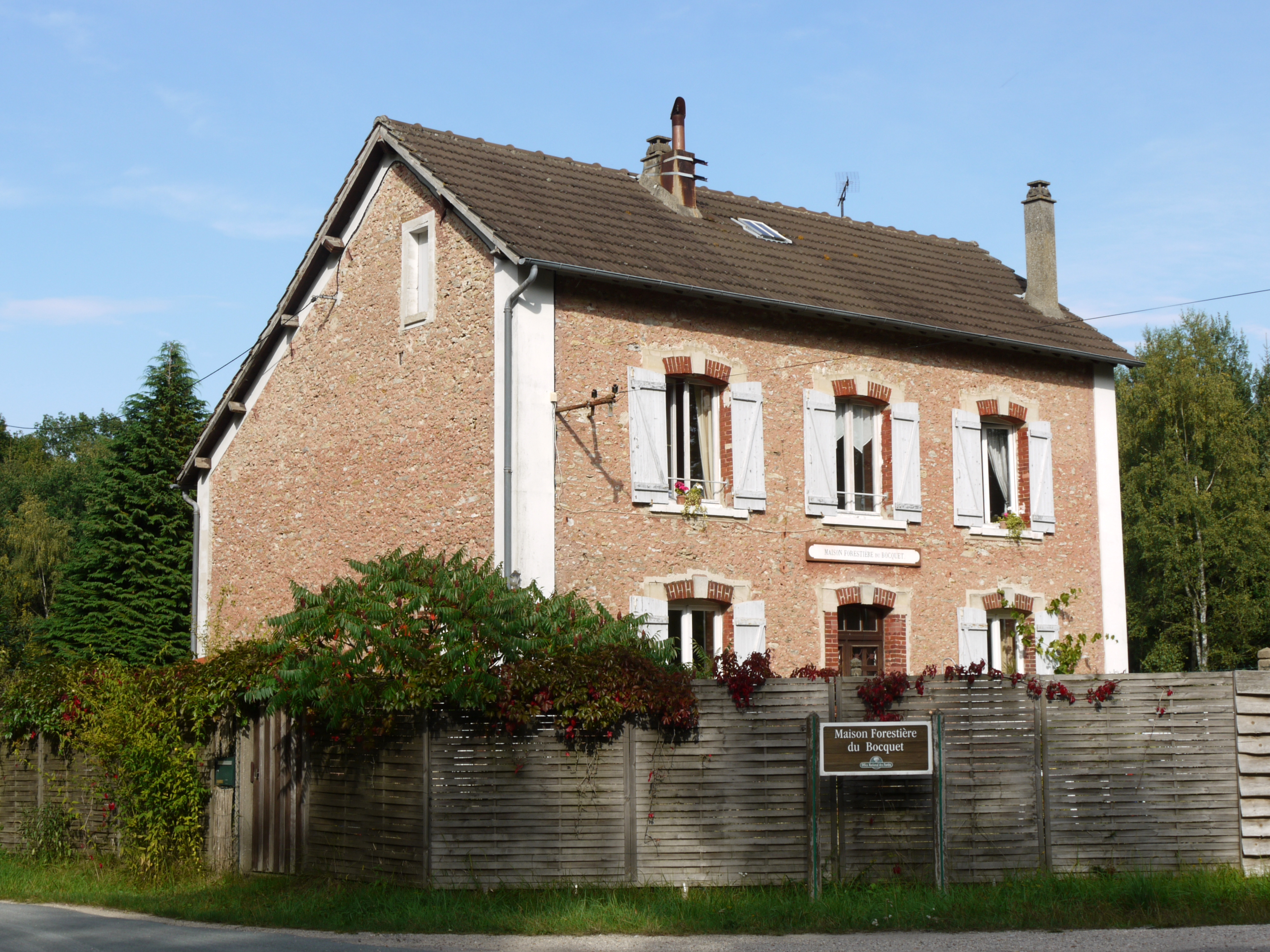 foret de Rambouillet, Ile de France